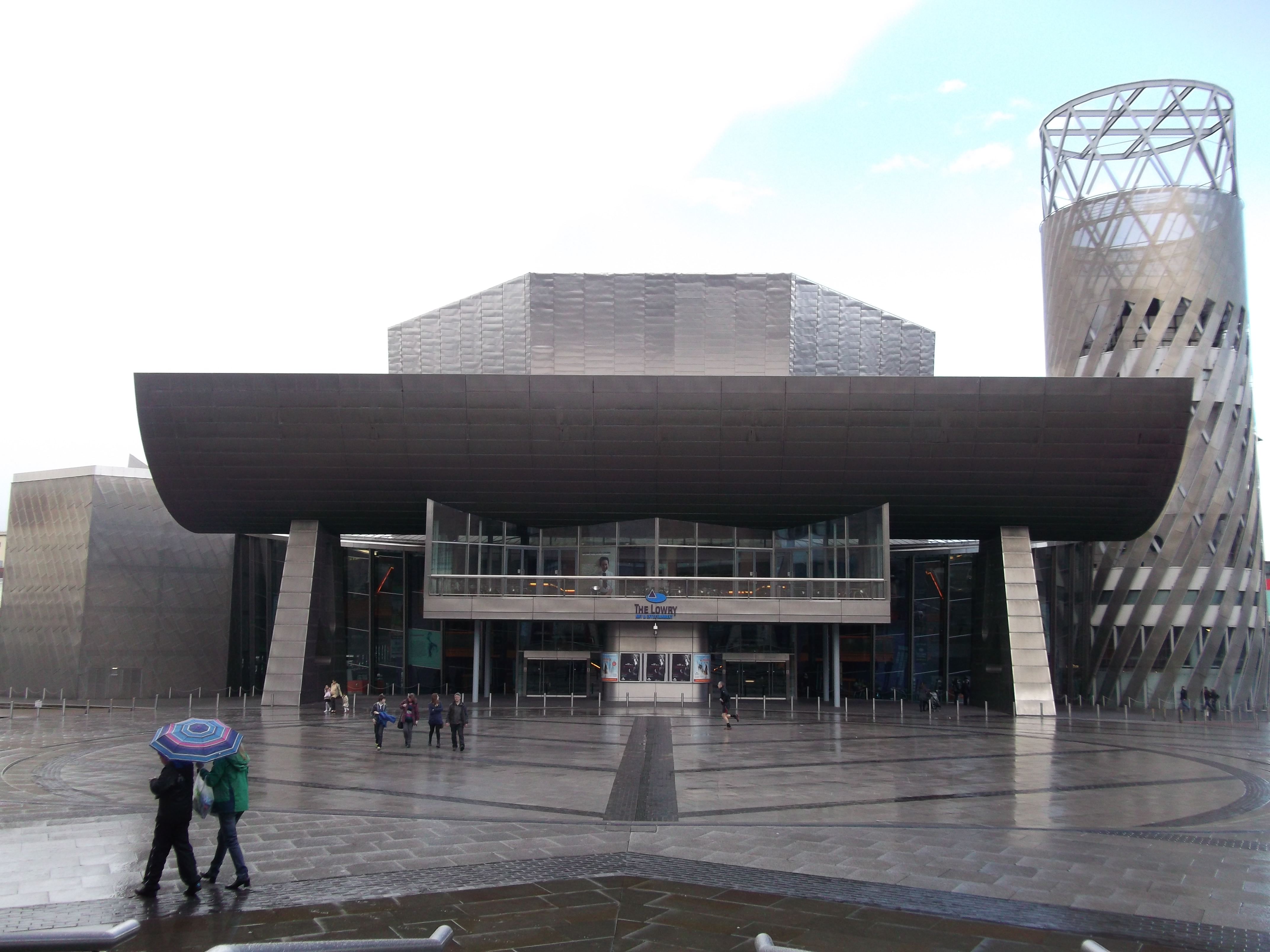 The Lowry Arts Centre, Salford Quays. The Weather wasn't too great.